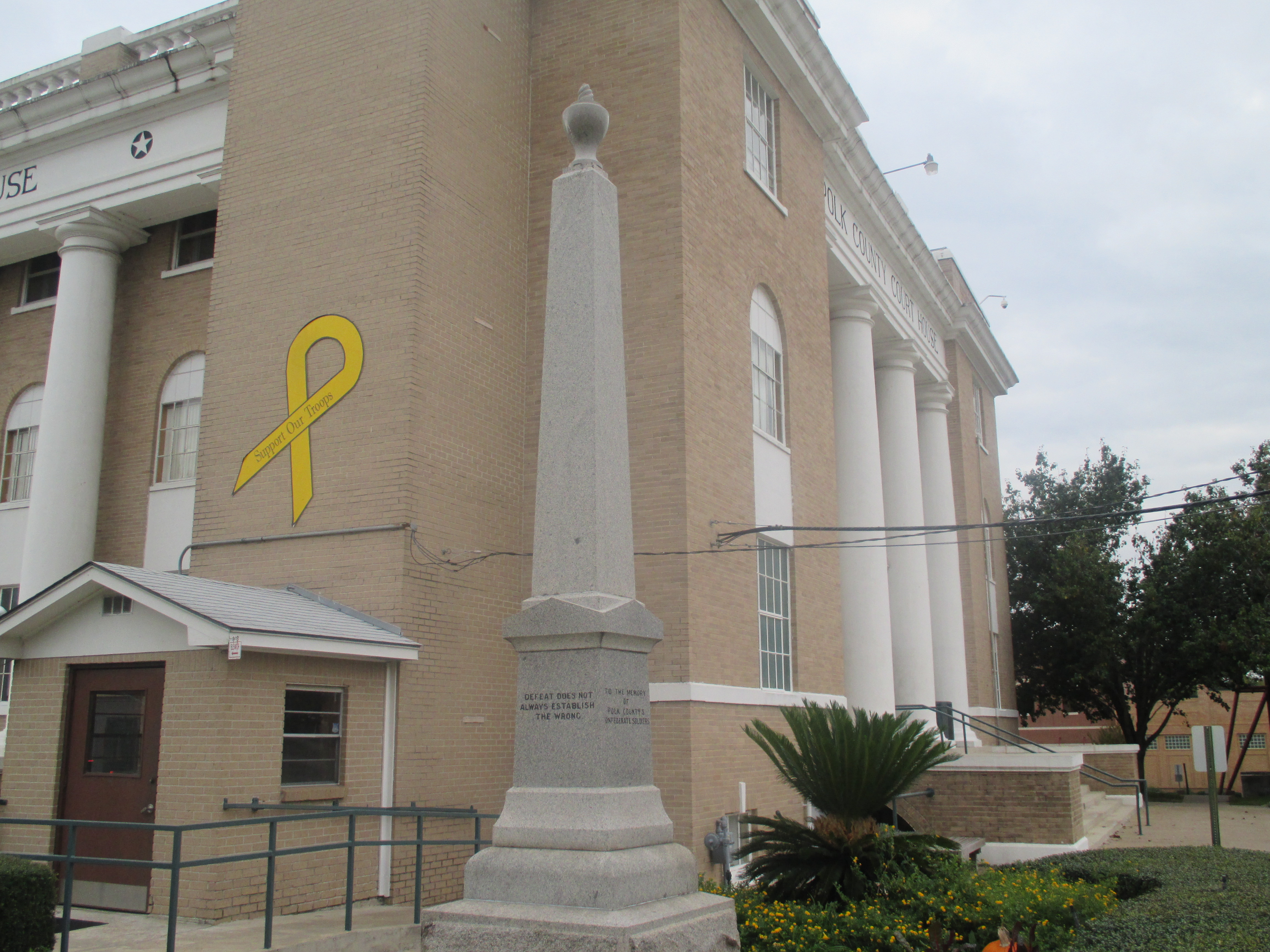 I took photo with Canon camera of Confederate memorial at the Polk County Courthouse in Livingston, TX.